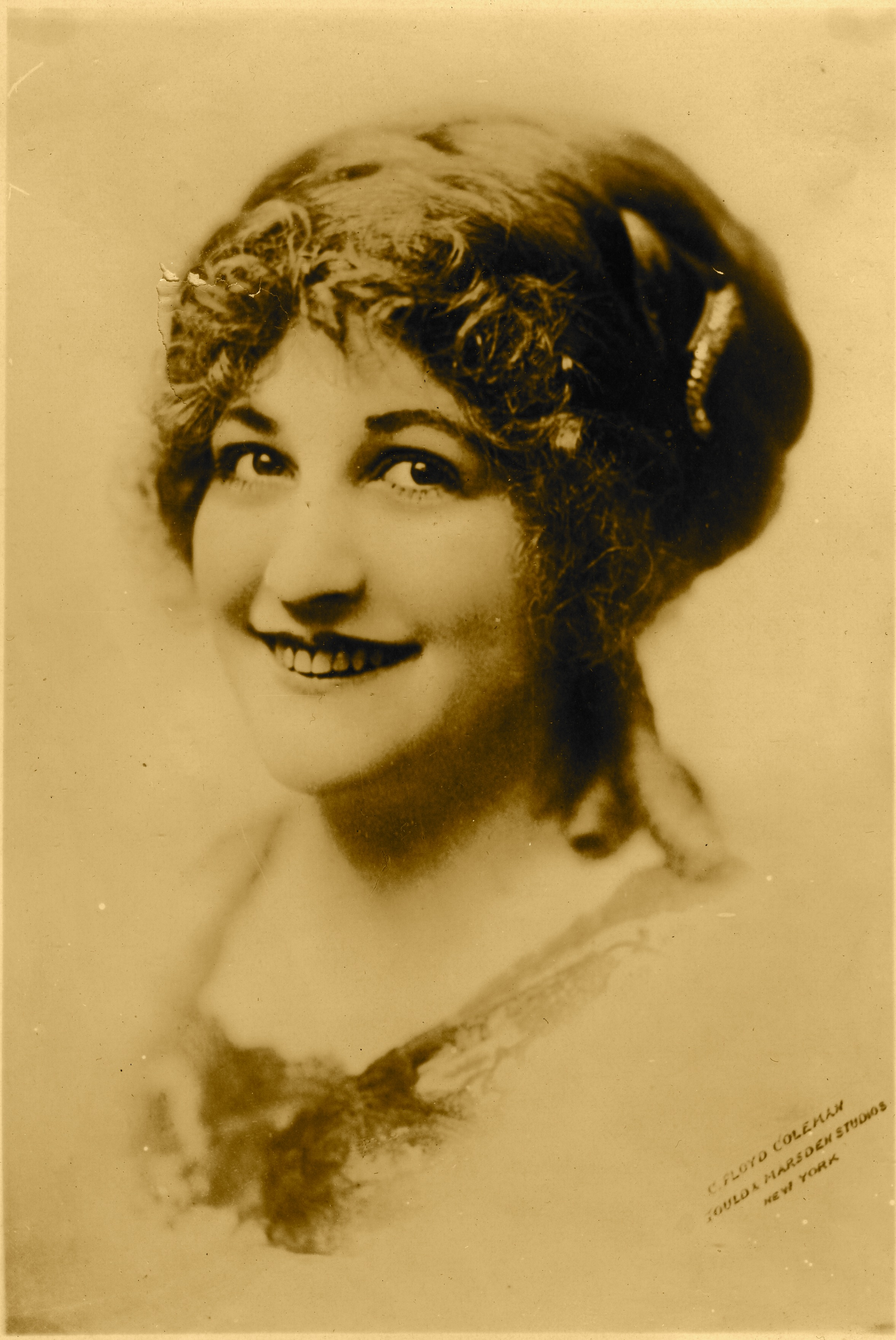 Publicity head shot for Octavia Handworth